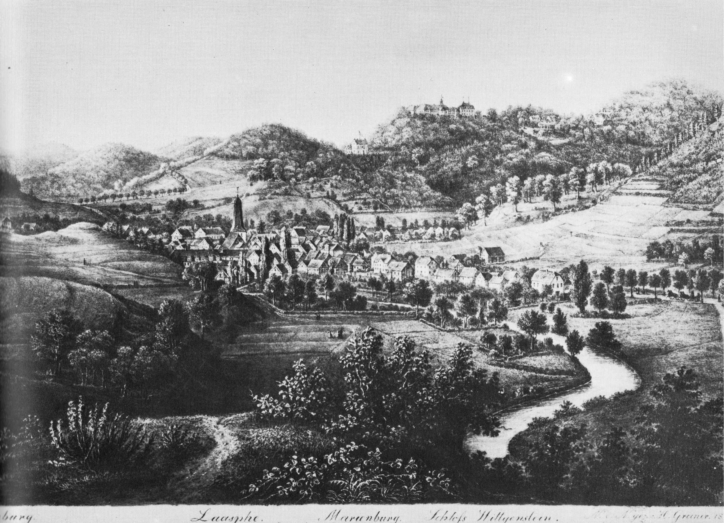 Laasphe in 1872 drewn from the “Hohenstein”